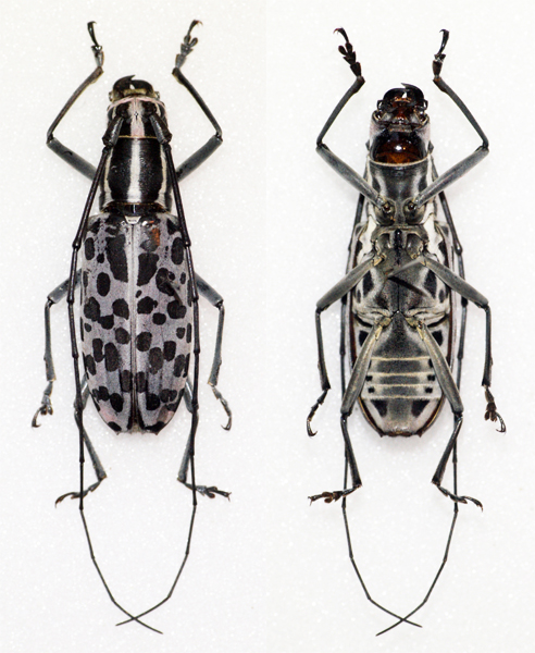 Aurivillius,1920 Sex: Male Data: 15-05-08 - Wiang Pa Pao - Chiang Rai - North Thailand Size: ?